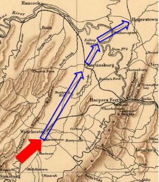 The map shows the path of retreat by a Union army led by General George Crook in the Second Battle of Kernstown. This U.S. Civil War battle and subsequent retreat took place on July 24-26, 1864. The retreat path, mostly along the turnpike, is marked on the map. Confederate cavalry pursued.